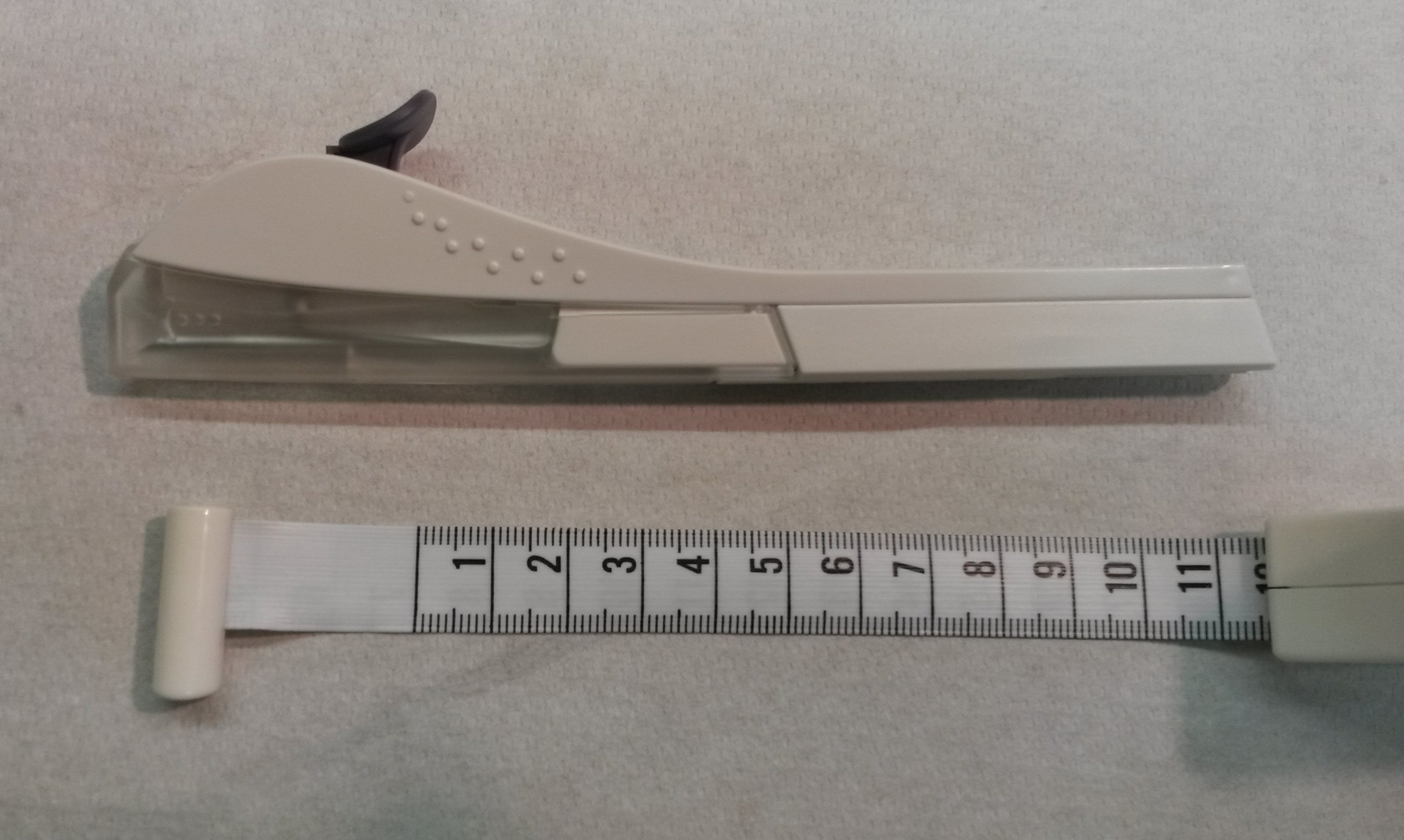 Implanon, a implant that works as a contraceptive for a long time